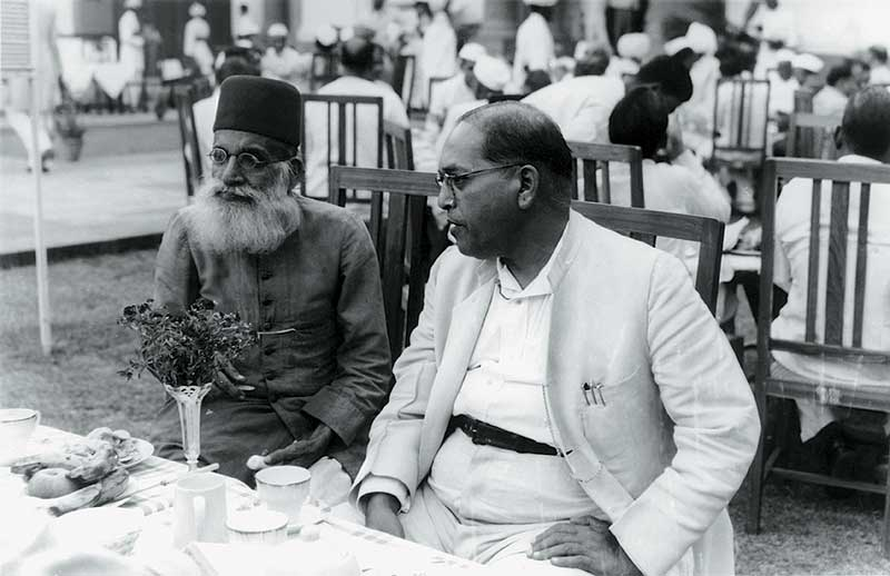 B.R. Ambedkar with Maulana Hasrat Mohani at Sardar Vallabhbhai Patel’s reception in 1949.